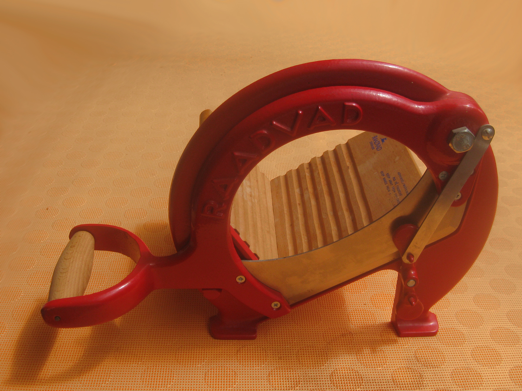 Raadvad breadslicer.